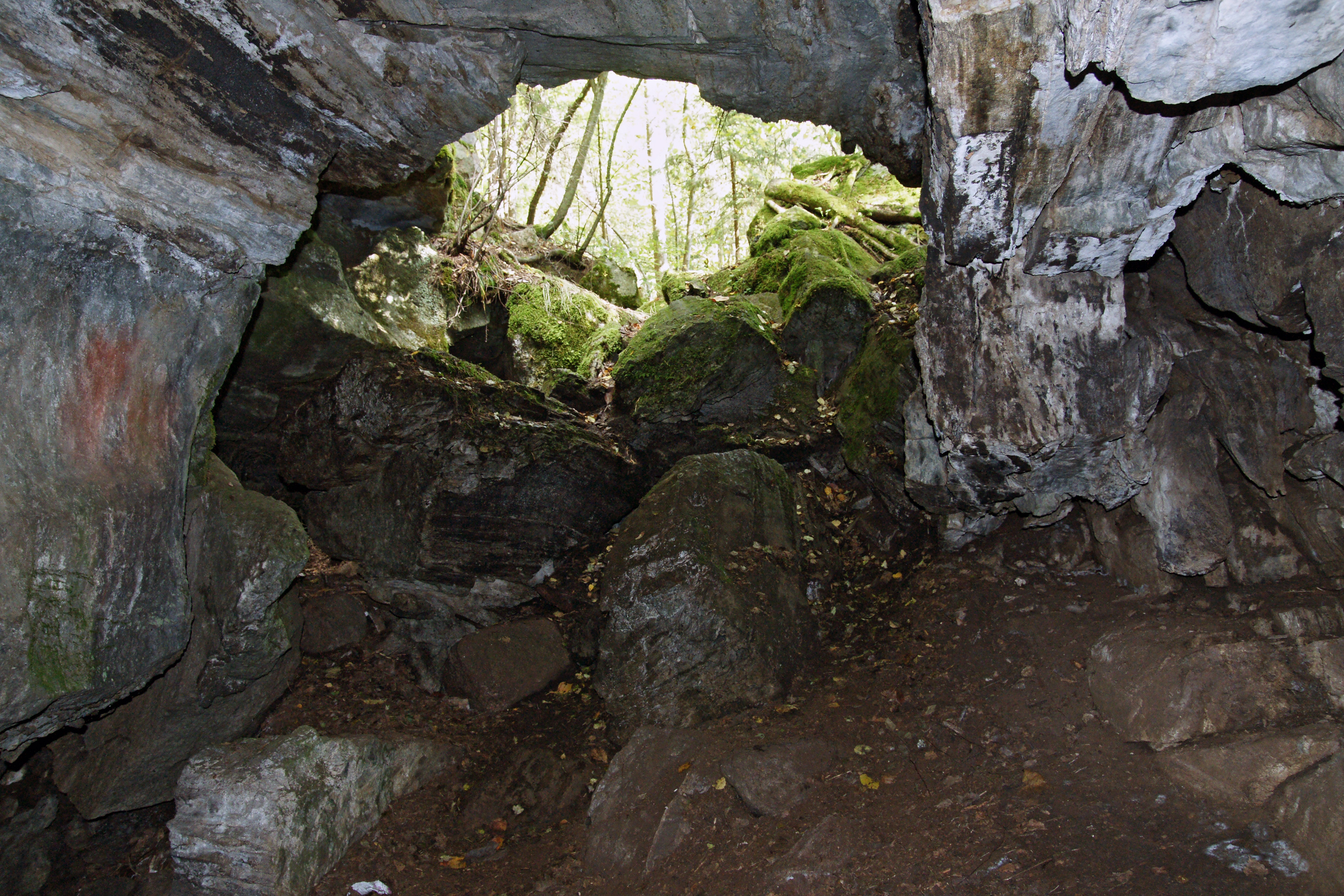 Torhola cave, Lohja.